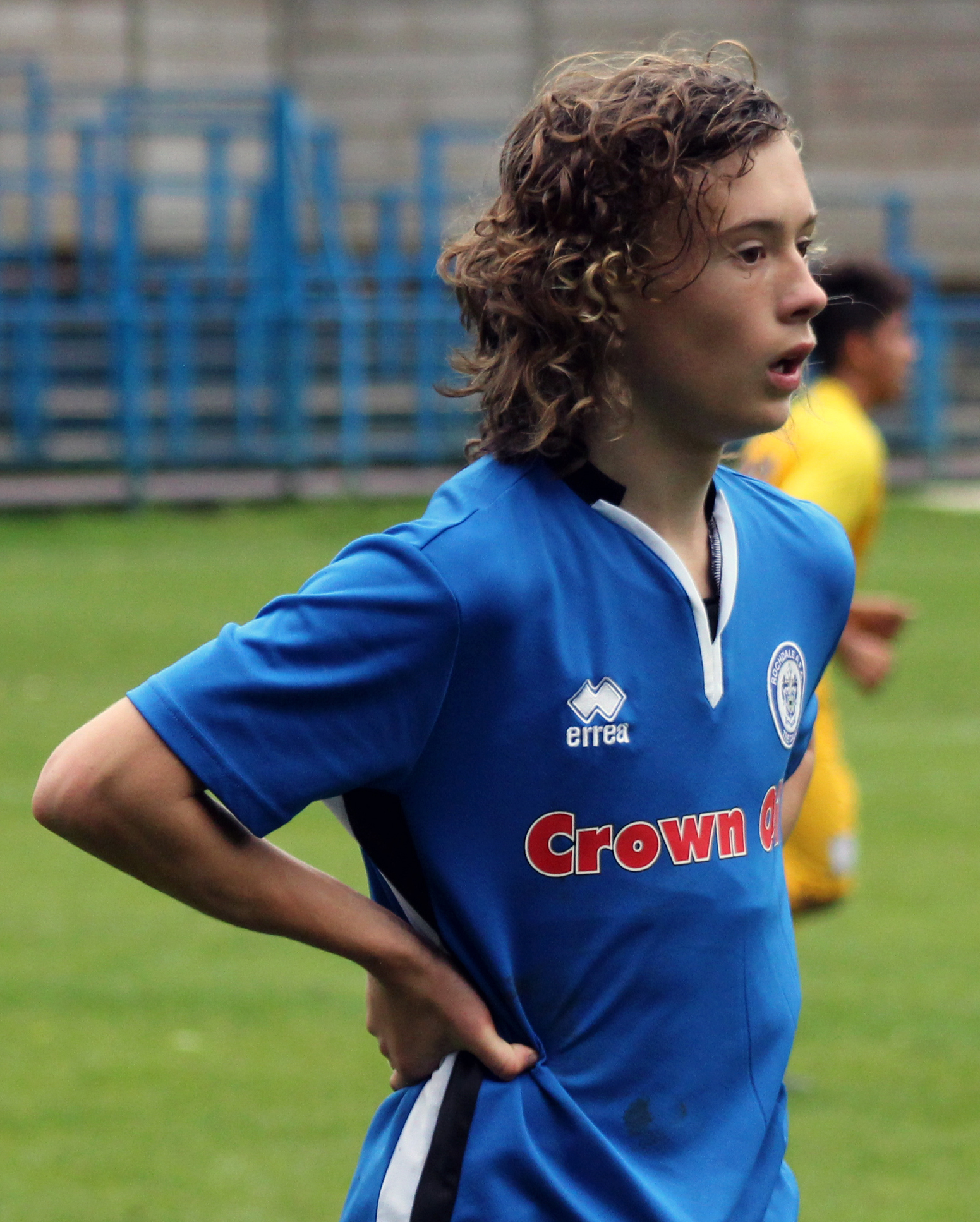 Luke Matheson playing for Rochdale U18s in a 3–2 victory against Preston North End U18s on Saturday 14 October 2017.